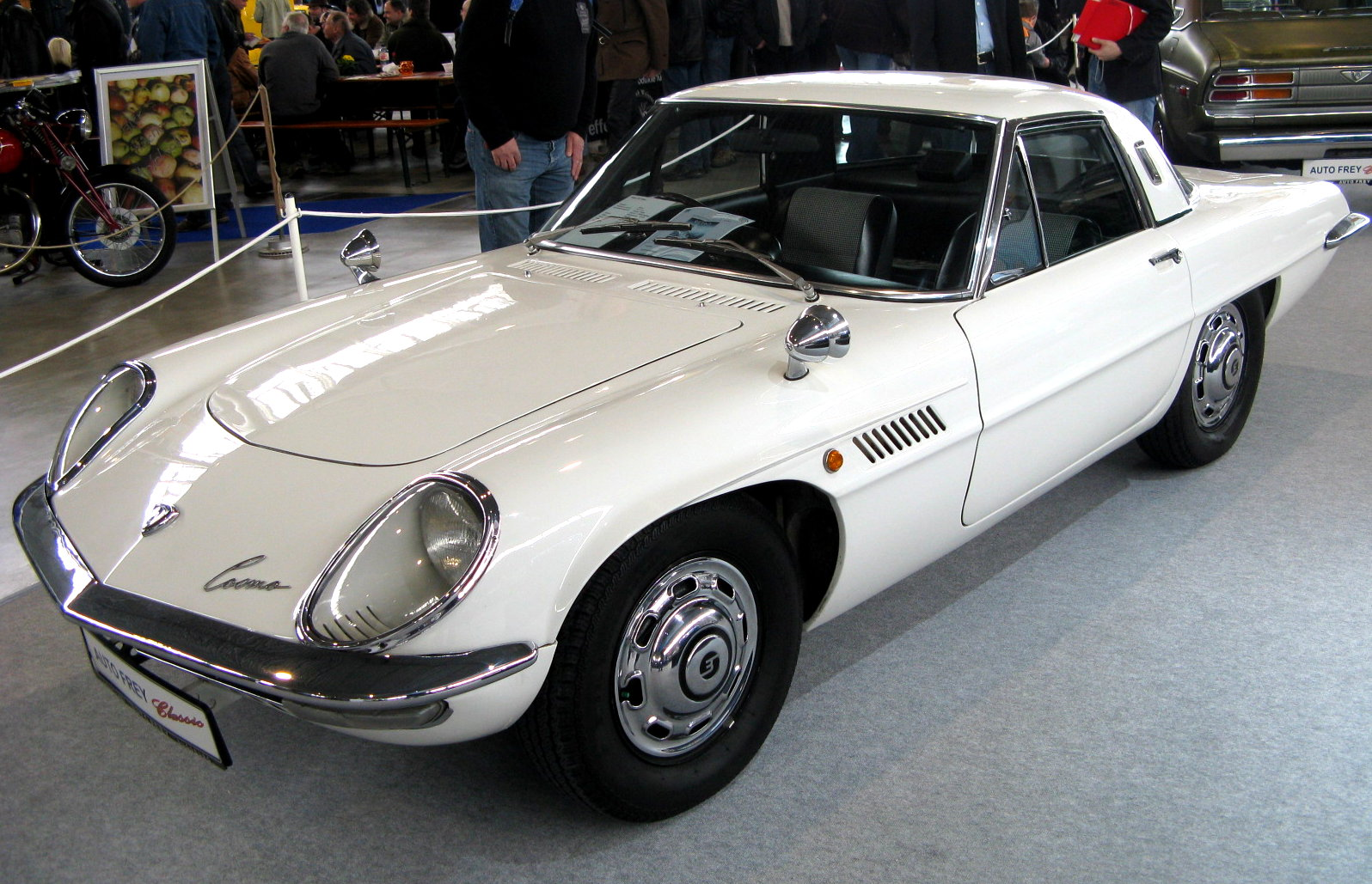 1972 Mazda 110 S Cosmo Sport